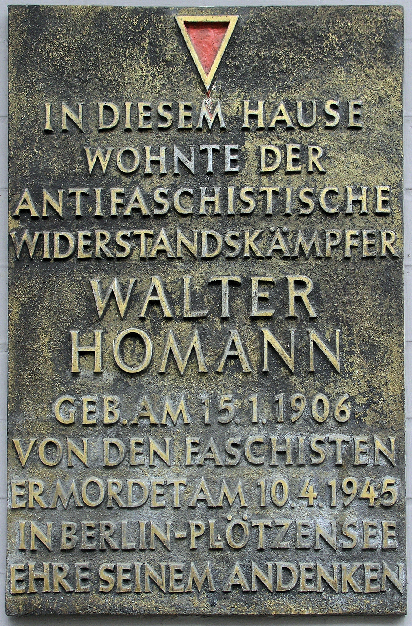 Memorial plaque, Walter Homann, Jungstraße 18, Berlin-Friedrichshain, Germany